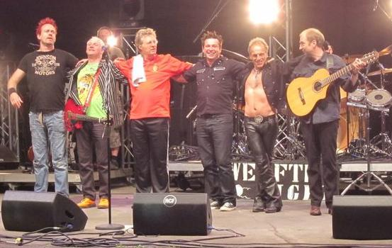 Twelfth Night live in Lorelai, Germany.